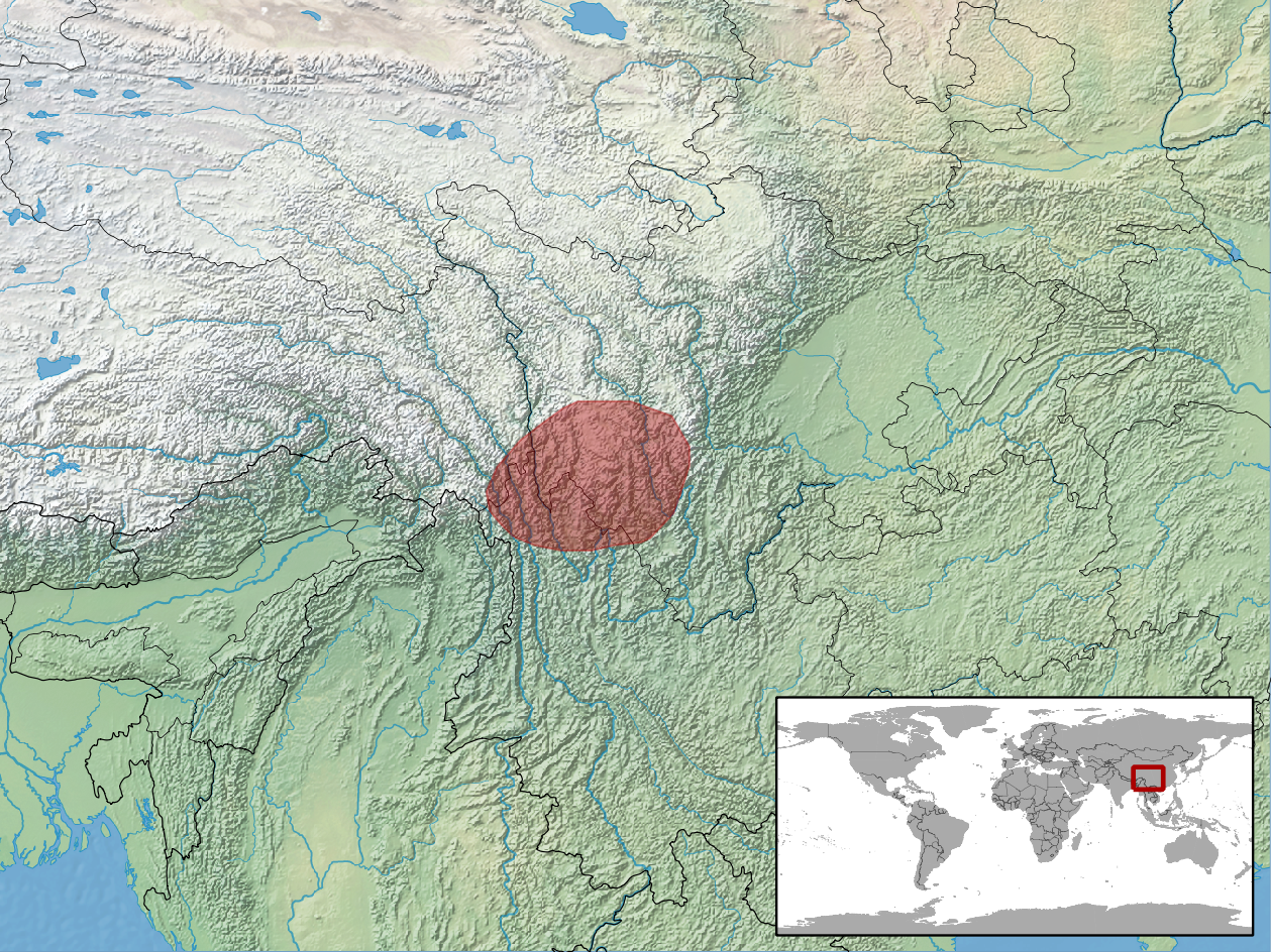 geographic distribution of Protobothrops xiangchengensis (Native: China (Sichuan, Yunnan))